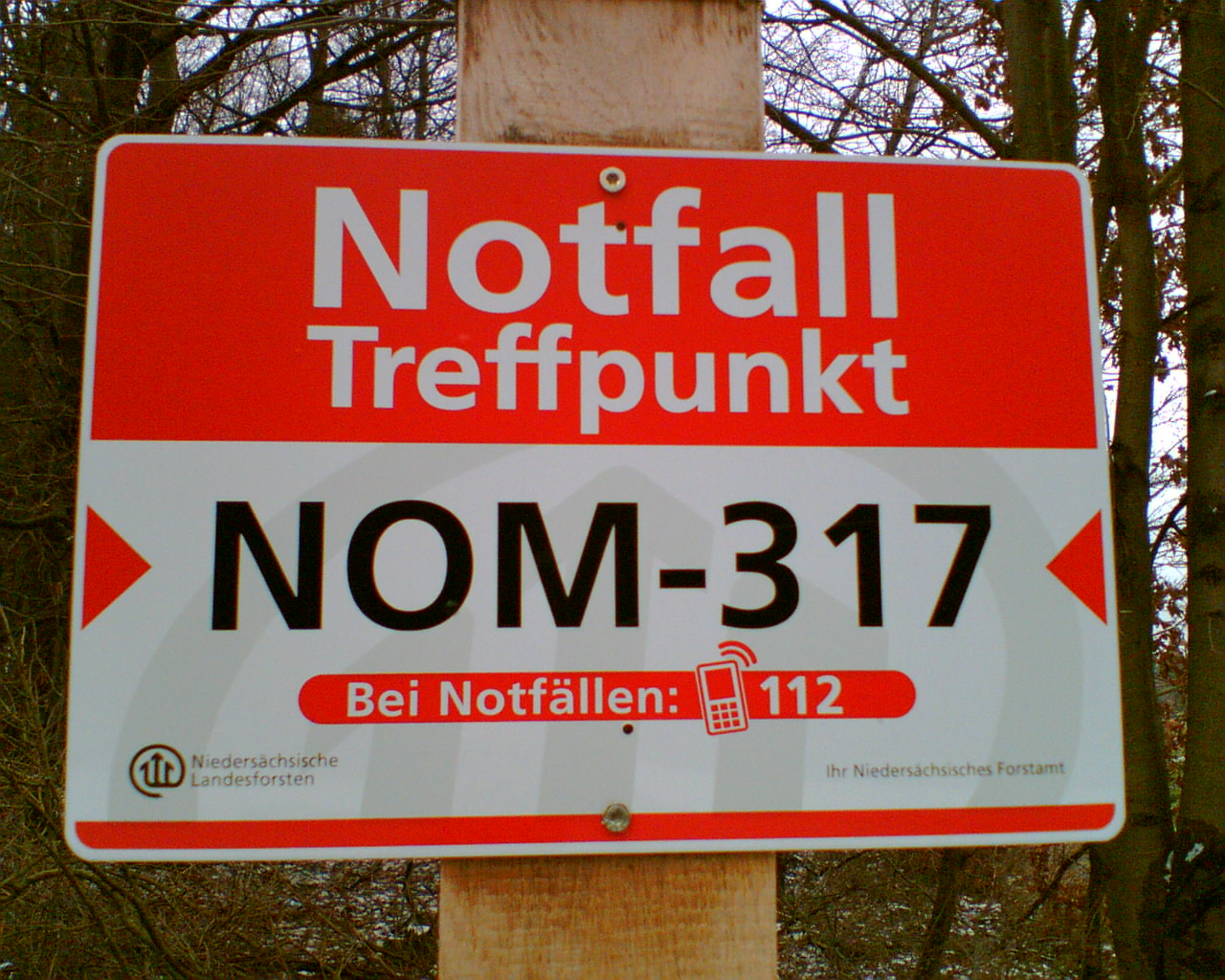 Location identifier in Solling mountain range near Abbecke (Lower Saxony, Germany). Meeting point in case of emergency. Claims that dialling 112 on a mobile phone will reach emergency services. Instead of describing location, cite unique identifier (three letter abbreviation of german district plus number) in order to allow quick response.